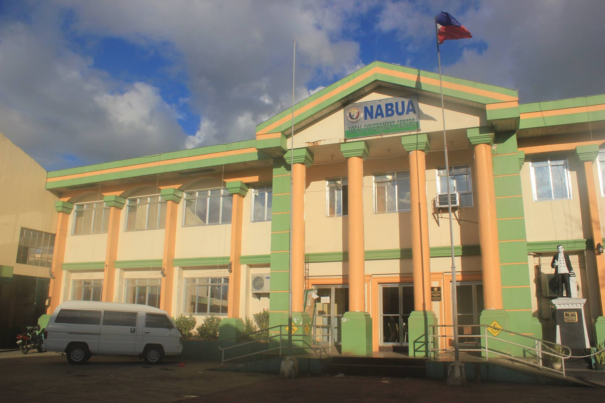 Municipal Hall of Nabua, Nabua, Camarines Sur